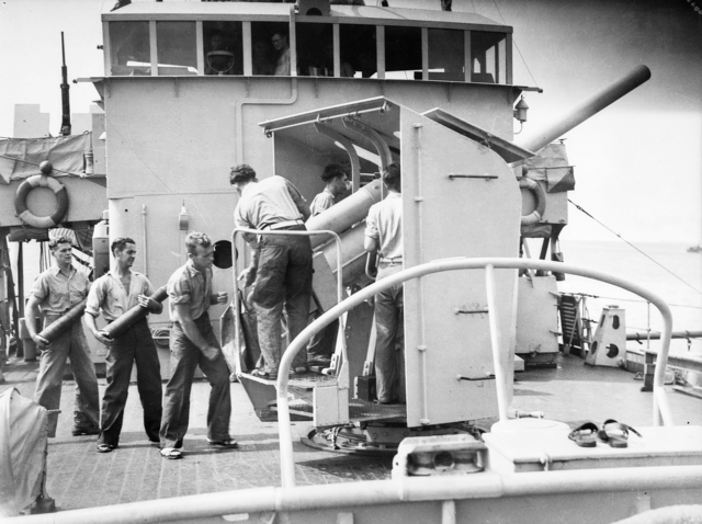 AWM caption : "TARAKAN ISLAND. 1945-06-22. HMAS COWRA AND CREW, PREVIOUSLY ENGAGED IN MINESWEEPING AND CONVOY WORK ROUND TARAKAN ISLAND, BEGAN PREPARATIONS FOR A TRIP TO MOROTAI. SHOWN, MEMBERS OF THE CREW PRACTICING GUN DRILL ON THE SHIP'S MAIN ARMAMENT, A 4 INCH M19 QF GUN. IDENTIFIED PERSONNEL ARE:- PM4633 ABLE SEAMAN C. D. HEARD (1); 21756 PETTY OFFICER J. L. GRAY (2); B2344 ABLE SEAMAN H. W. MOESSINGER (3); PM2160 LEADING SEAMAN N. R. GERRARD (4); PM3489 ABLE SEAMAN E. A. THOMPSON (5); PM6741 ABLE SEAMAN N. B. SHEPHERD (6); PA4352 ABLE SEAMAN I. S. SMOKER (7)."